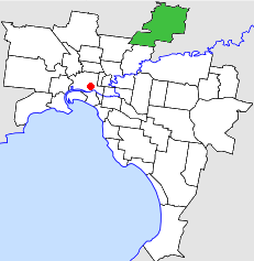 Location of the Shire of Diamond Valley within Melbourne.